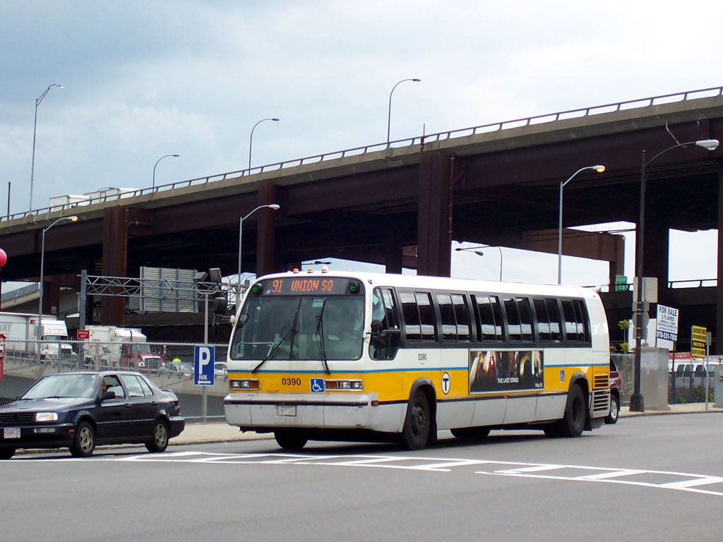 MBTA NovaBus RTS #0390 at Sullivan Station.